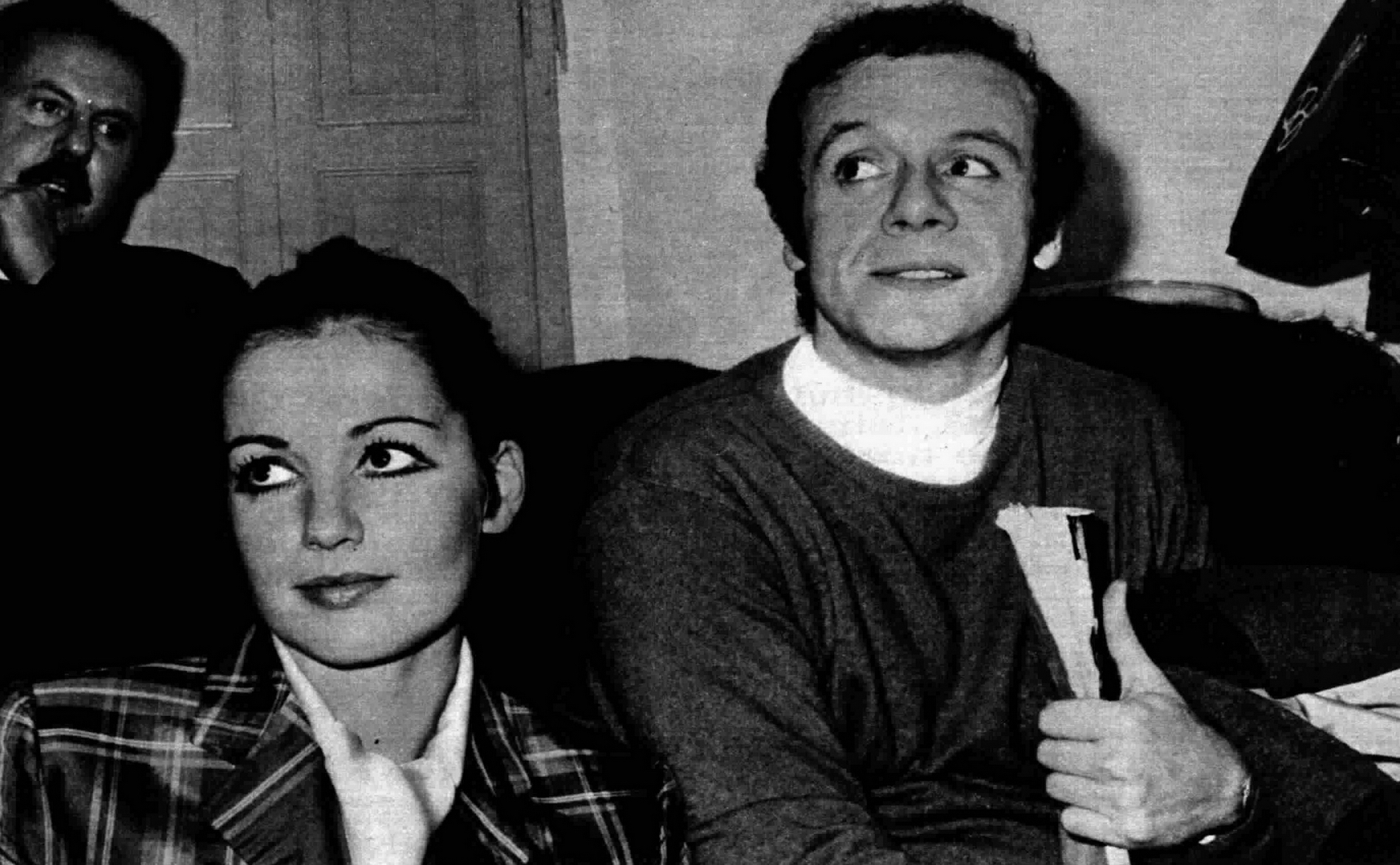 Italian actors Johnny Dorelli and Catherine Spaak, Reggio Emilia